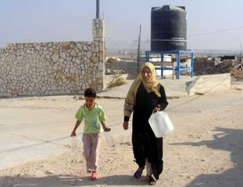 waste piles up at rafah municipality waste dump